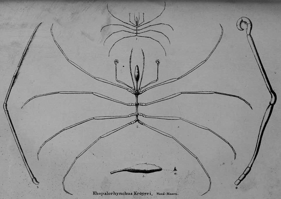 Illustration of Rhopalorhynchus kroeyeri Wood-Mason 1: "natural size" 2: Greatly enlarged 3: A cephalic appendage of the second pair, greatly enlarged 4: id. of the third pair 5: Rostrum seen from the side (a = mouth)